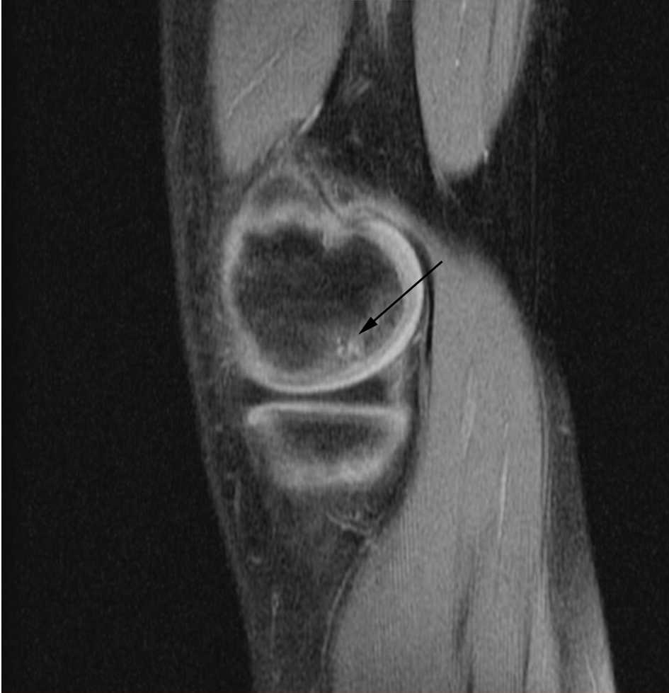 "Sagittal and coronal T1 and T2 images demonstrate linear low T1, high T2 signal at the articular surfaces of the lateral aspects of the medial femoral condyles bilaterally, corresponding to the radiographs, confirming the presence of bilateral osteochondritis dissecans, with diffuse increase in T2 signal at the medial femoral condyles, indicating marrow edema." From the case of a 9-year-old buy with bilateral knee pain.